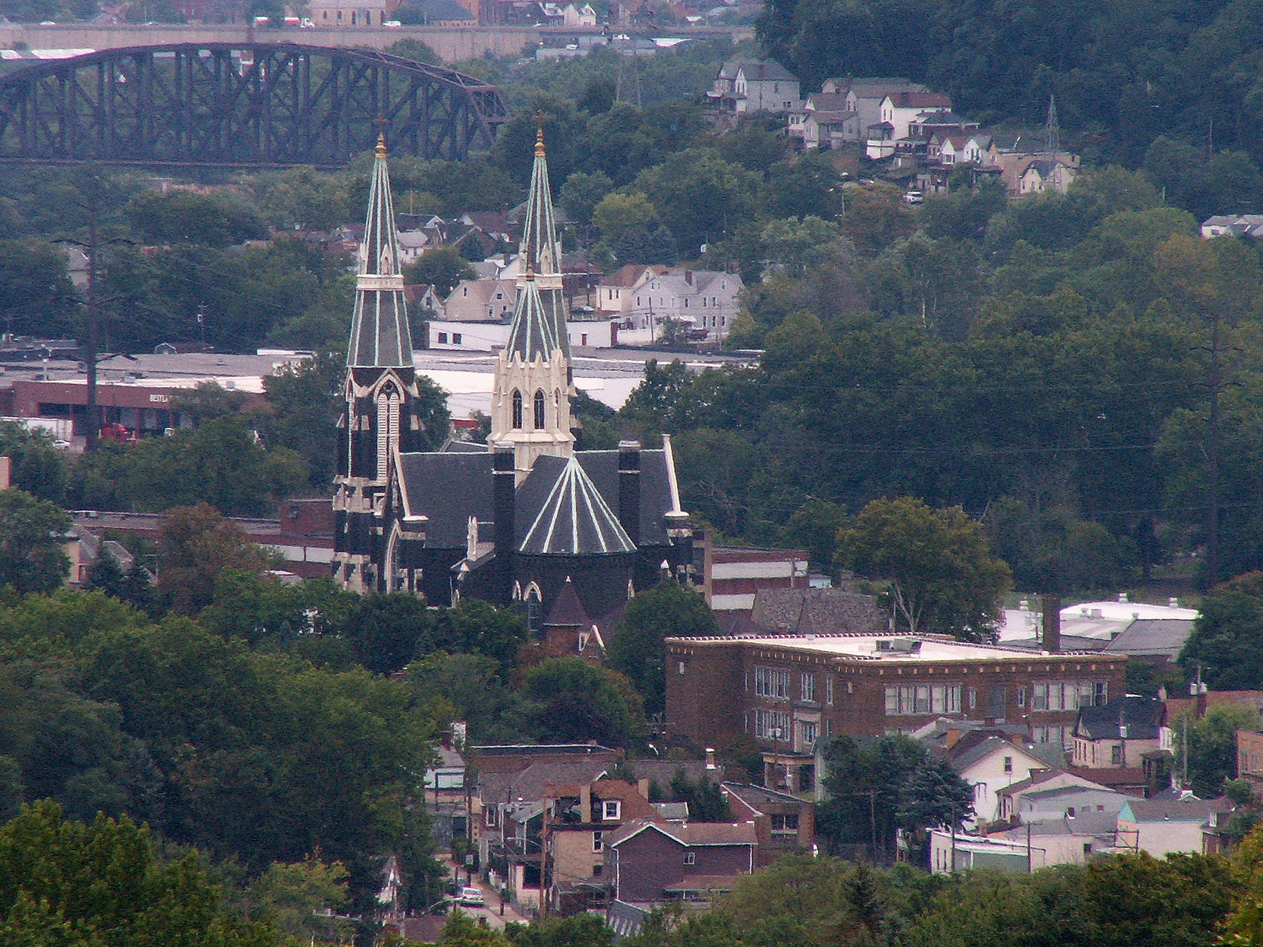 St. Mary’s Church, worship site of St. John of God Roman Catholic parish, McKees Rocks, Pennsylvania